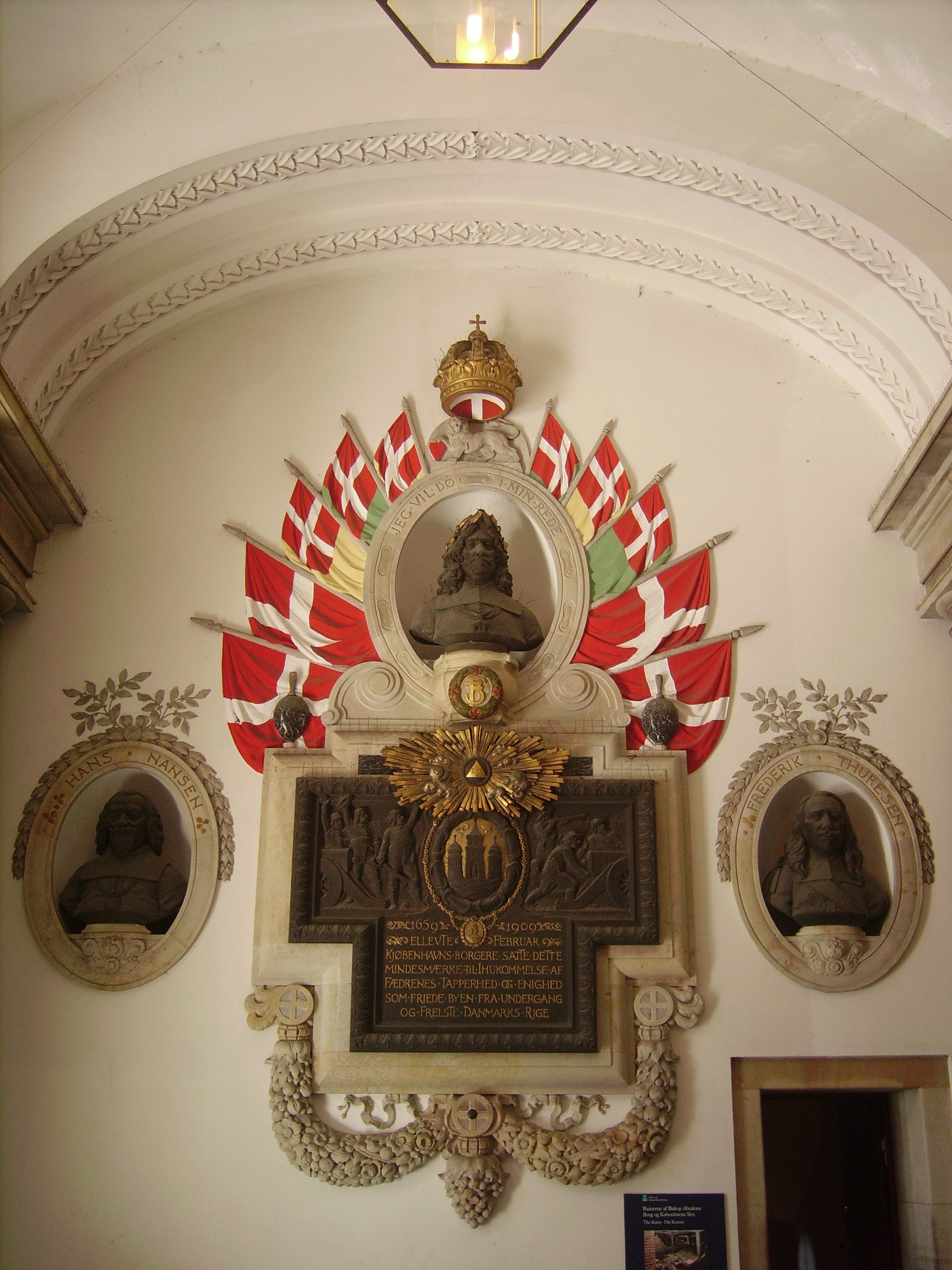 Memorial in Christiansborg Castle, Denmark. The actual work of art was created by Martin Nyrop (1849-1921). It was created in 1910 and erected in 1917. The king depicted is Frederick III and the event commemorated is Sweden's attack on Copenhagen, 1659.